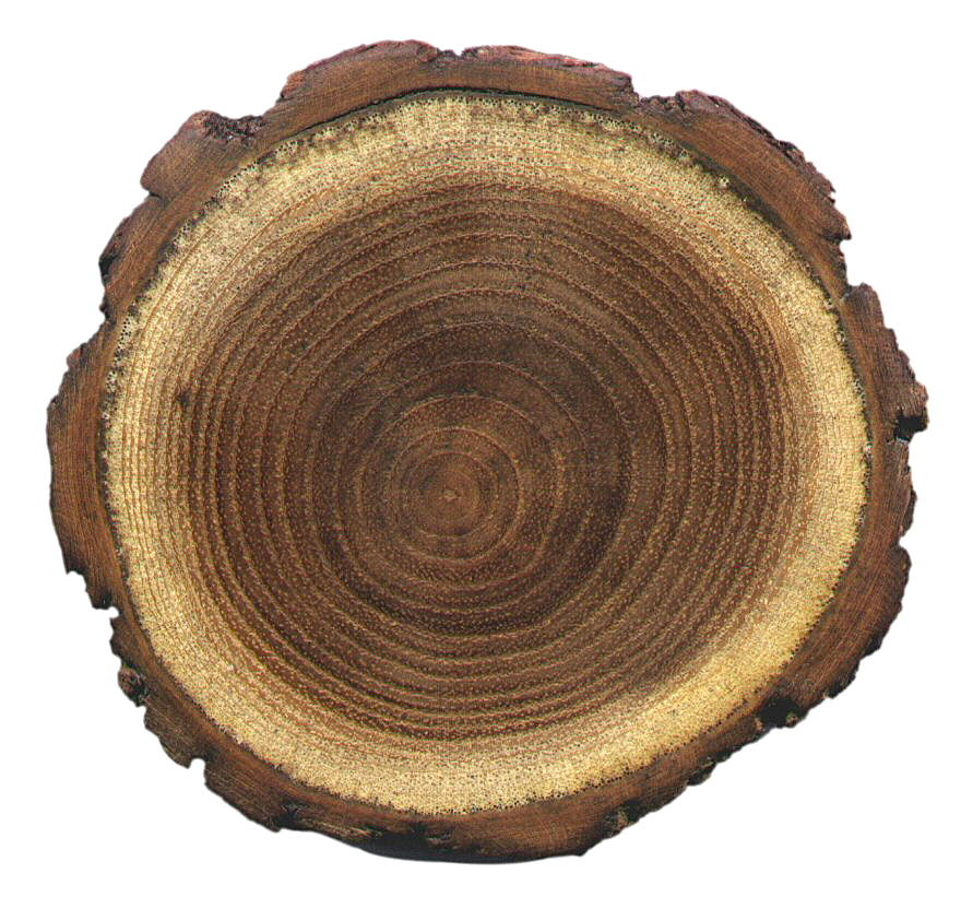 Robinia pseudoacacia cross section